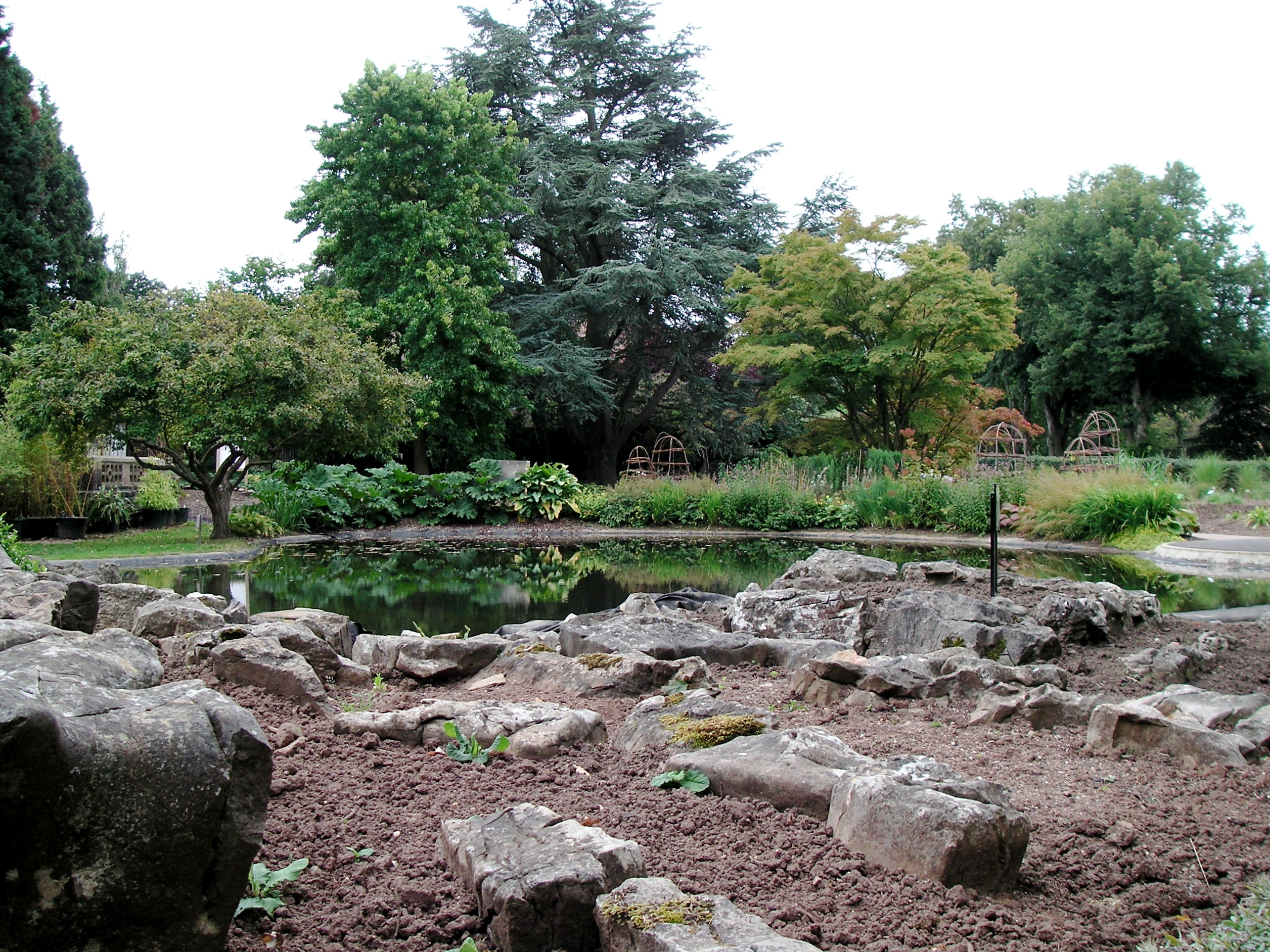 University of Bristol Botanic Gardens